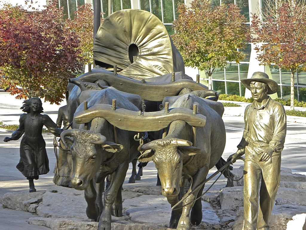 Pioneers Sculpture in Omaha